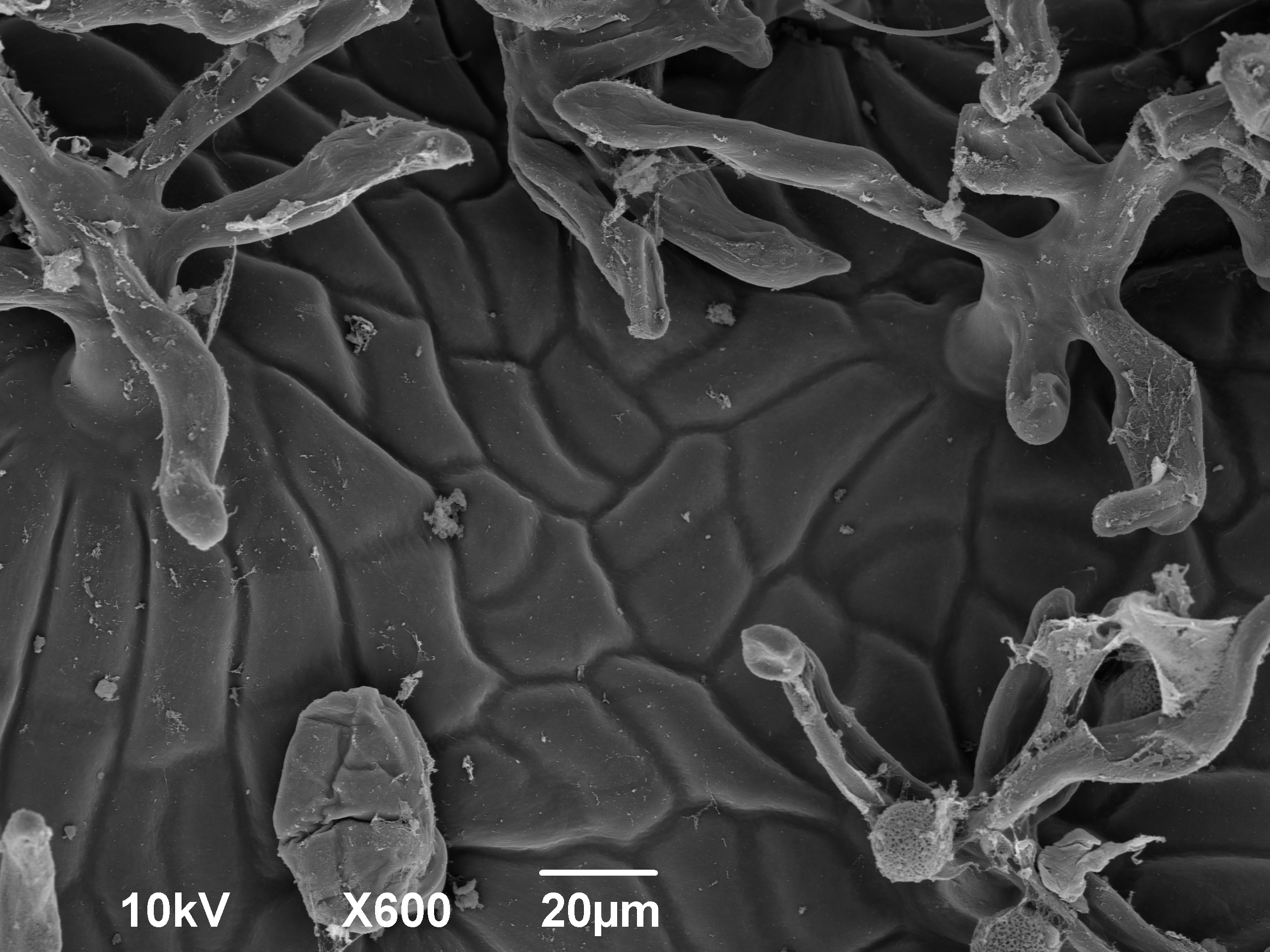 Scanning electron micrograph of trichomes dotting the secretory surface of a pitcher plant.